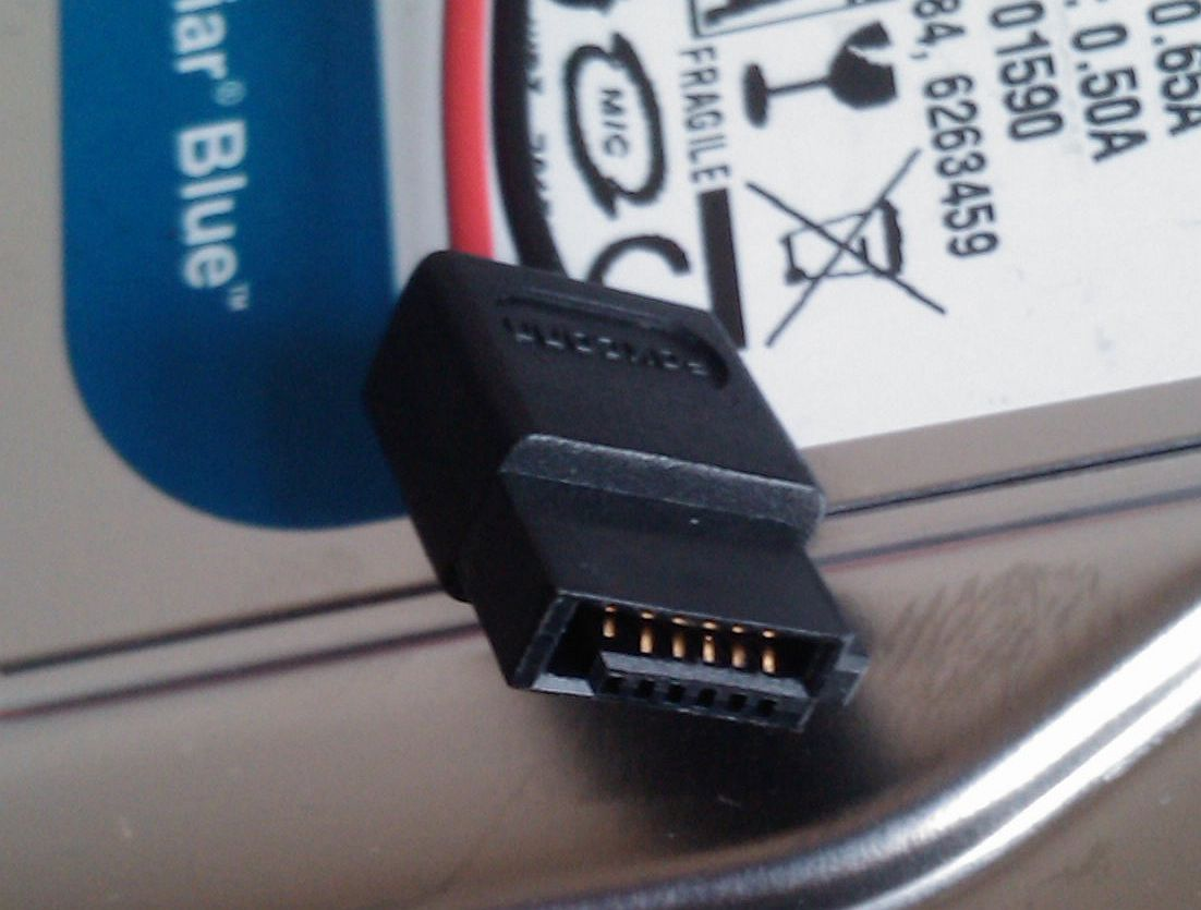 6-pin Serial ATA slimline power connector